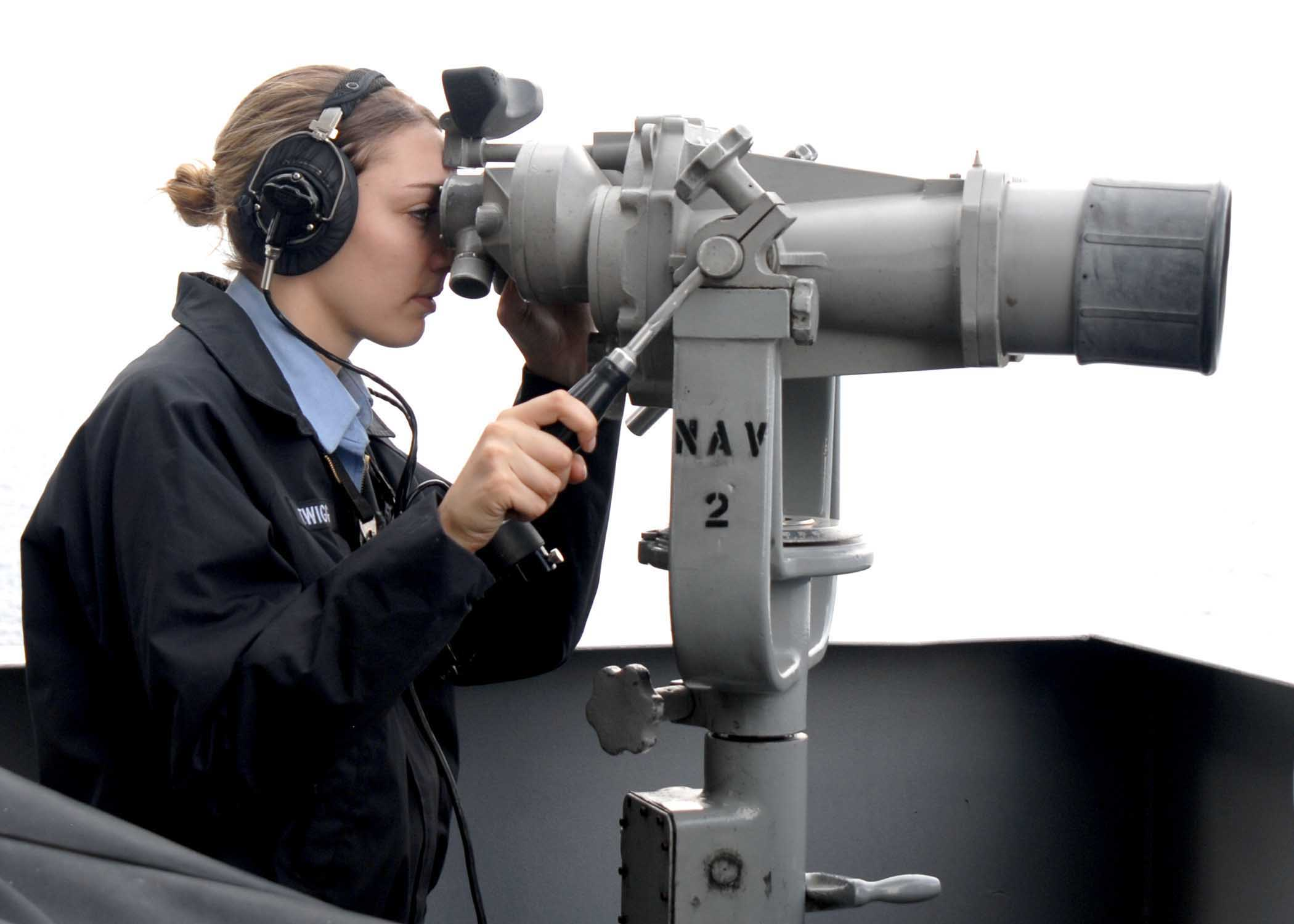 GULF OF OMAN (Dec. 17, 2008) Boatswain's Mate Seaman Jacqueline Twigg stands port lookout watch on the weather deck of the signal bridge aboard the Nimitz-class aircraft carrier USS Theodore Roosevelt (CVN 71). Theodore Roosevelt and Carrier Air Wing (CVW) 8 are conducting operations in the U.S. 5th Fleet area of responsibility and are focused on reassuring regional partners of the United States' commitment to security, which promotes stability and global prosperity. (U.S. Navy photo by Mass Communication Specialist 2nd Class Remus Borisov/Released)